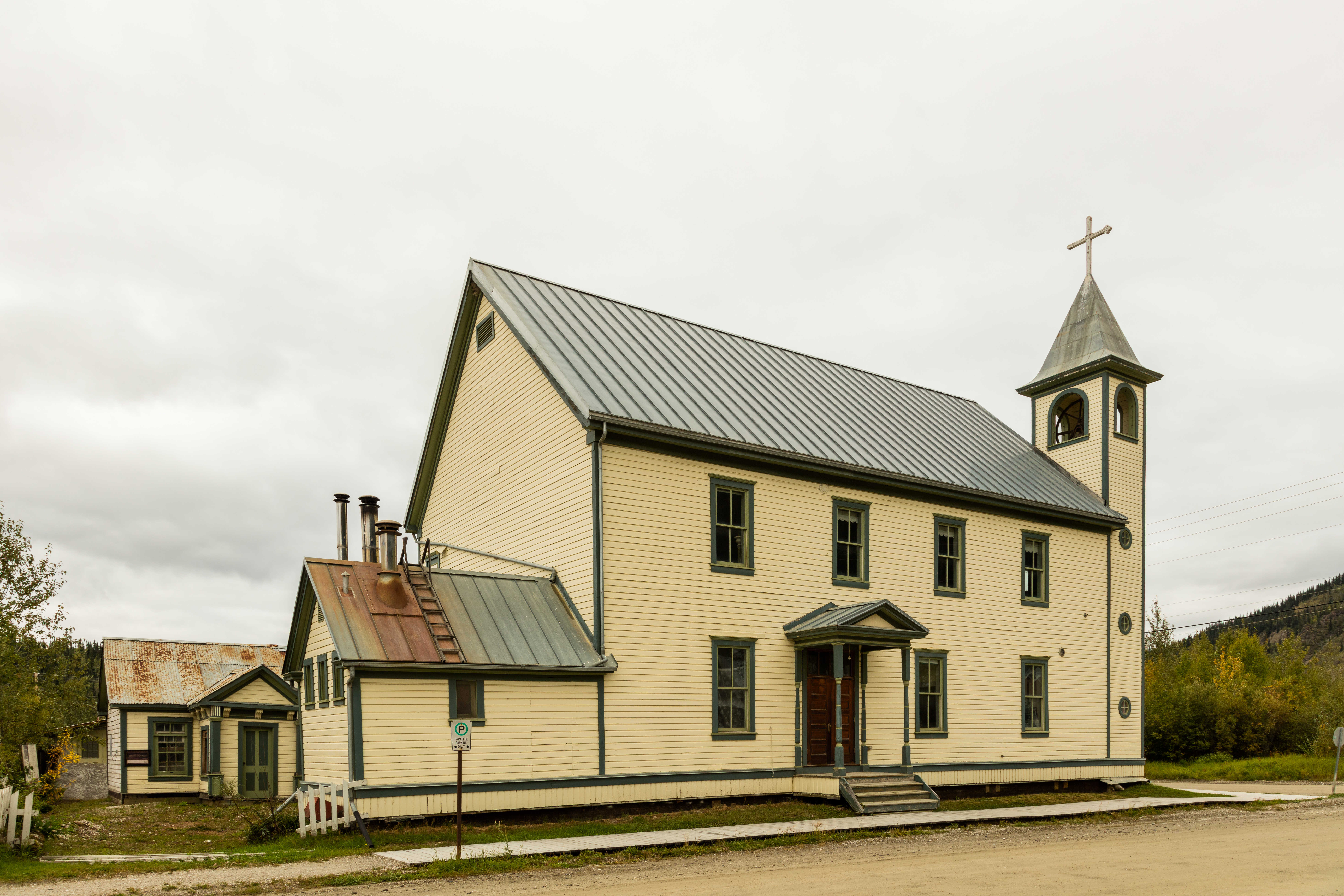 St Mary Catholic Church, Dawson City, Yukon, Canada